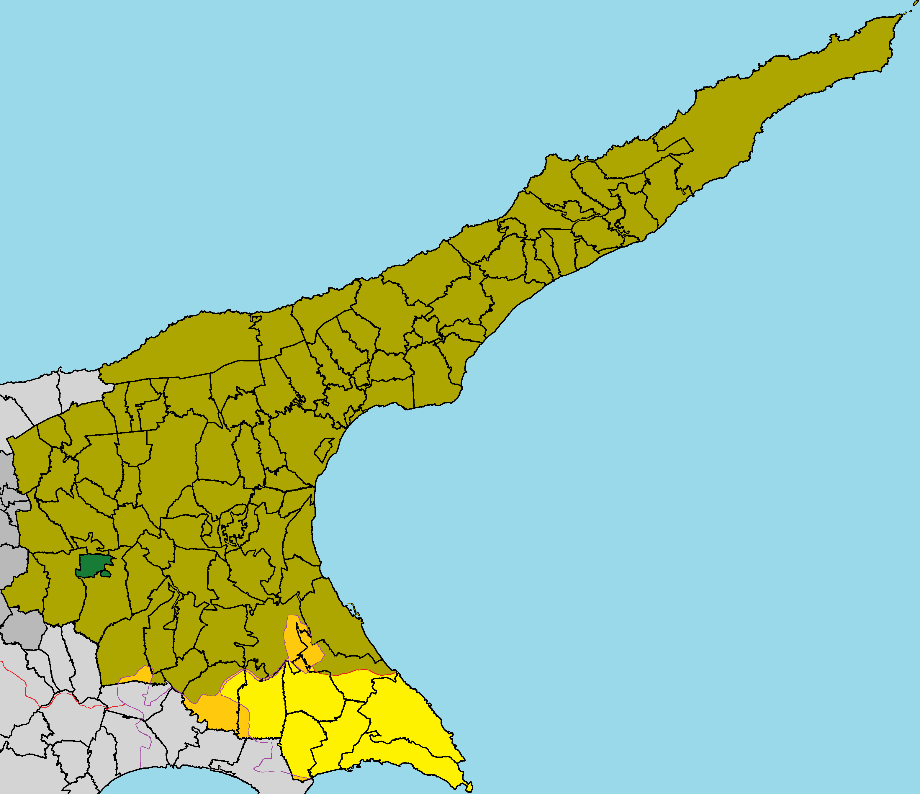 Strongylos in Famagusta District (de jure).